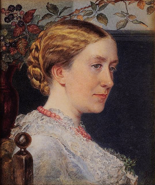 Portrait of Lady Sarah Spencer (1838-1919), wearing a white dress and pink necklace with blackberries signed with monogram and dated '1876' (lower right) watercolour, on paper 29.2 x 24.1 cm. She was the sister of the John Poyntz Spencer, 5th Earl of Spencer, and lived next door to Spencer House at 28 St. James's Place. She was a close friend of William Gladstone's.